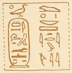 Drawing by Percy Newberry of a seal of pharaoh Sekhemrekhutawy Sobekhotep Amenemhat of the early 13th dynasty, second intermediate period. The seal reads "The son of Ra, Sobekhotep Amenemhat, beloved of Sobek-Ra, Lord of iu-meteru"